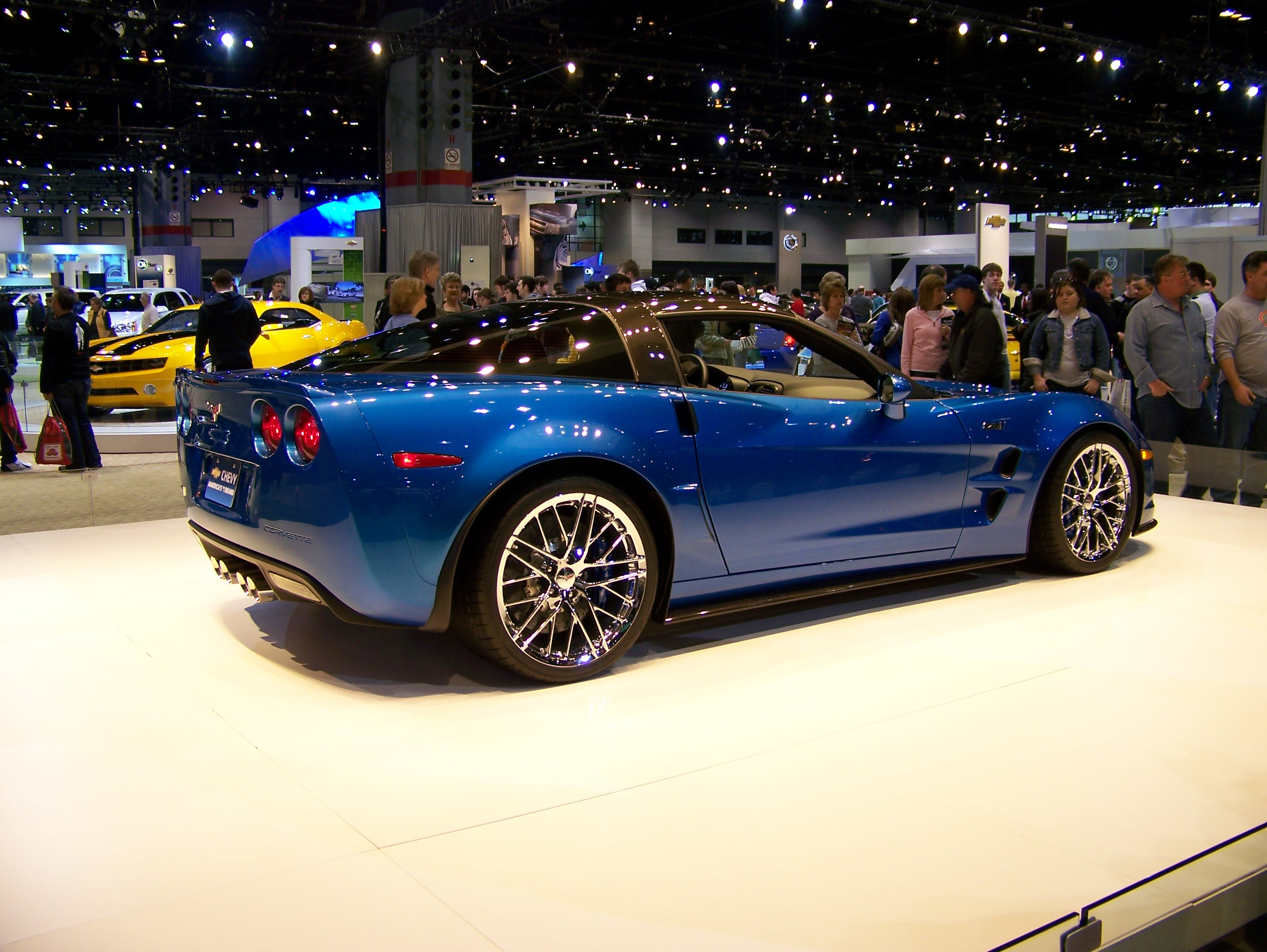 Corvette ZR1 LAZZO (talk) 06:23, 25 February 2008 (UTC)